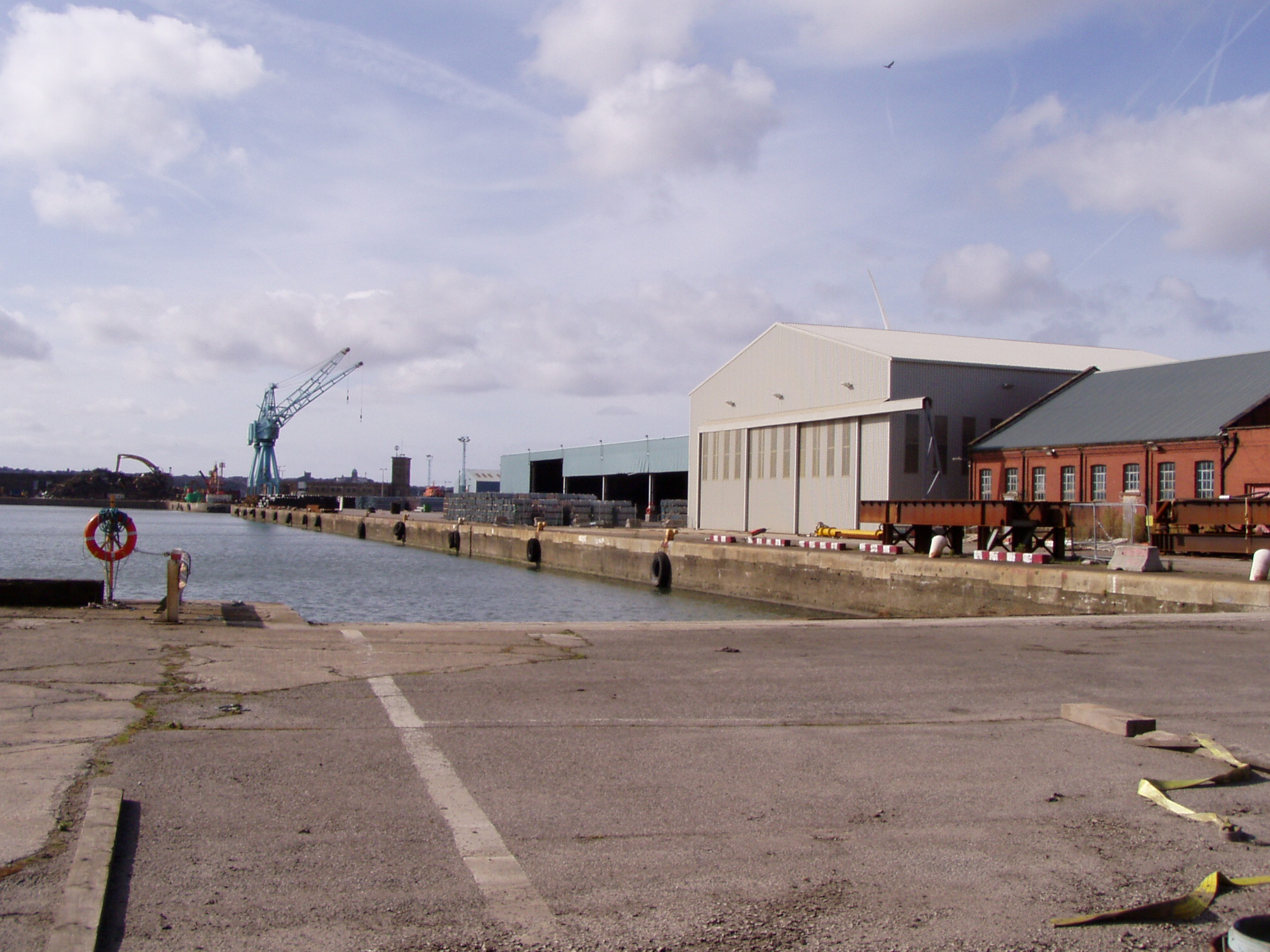 A Dock (Canada Branch Dock No. 3) toward the NOrth End of Liverpool Docks